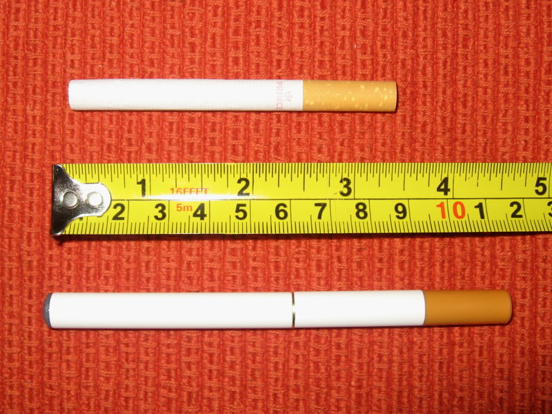 This is an e-cigarette I bought from in the UK, it is revision 2 of the same OEM that is pictured further up on the page, in comparison to a standard cigarette and a measuring tape showing inches and cm.